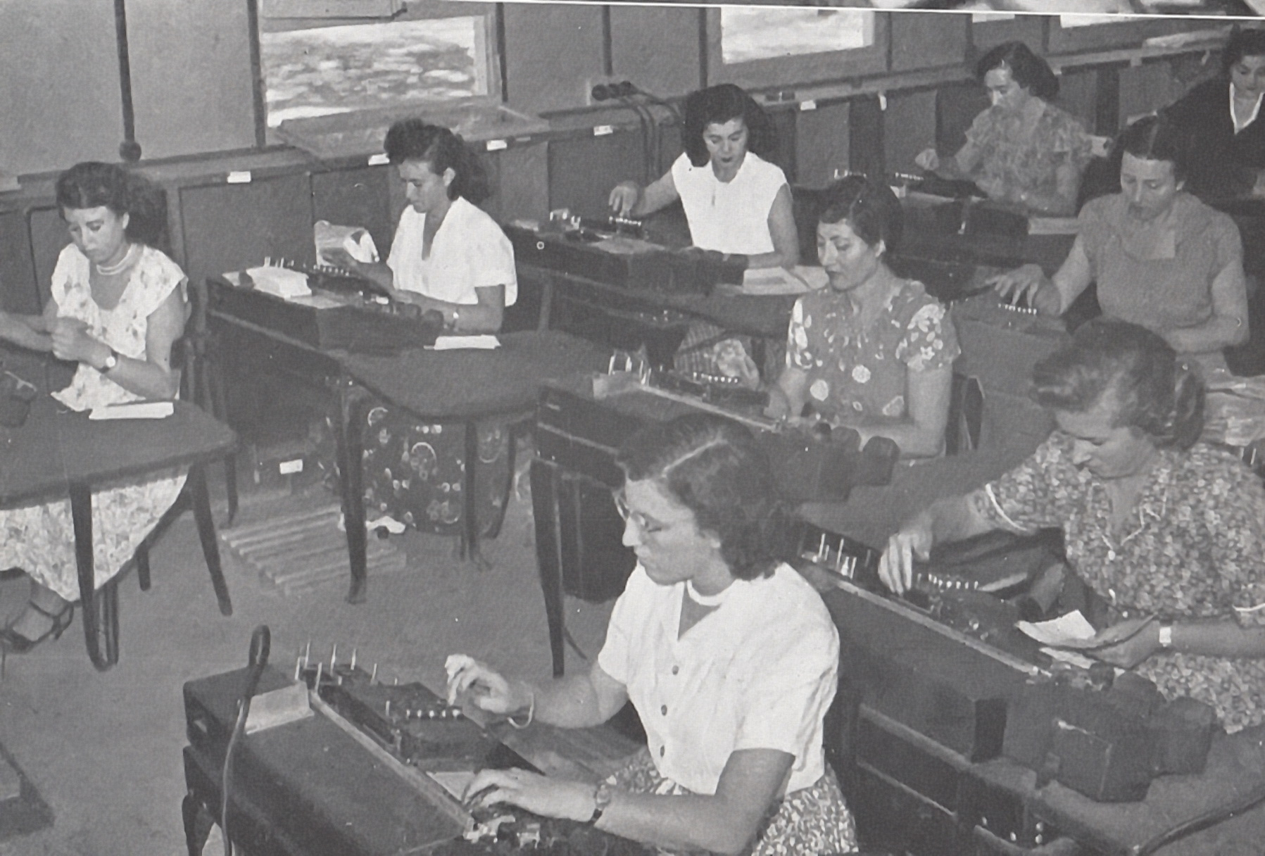 Knesset elections, Politics of Israel